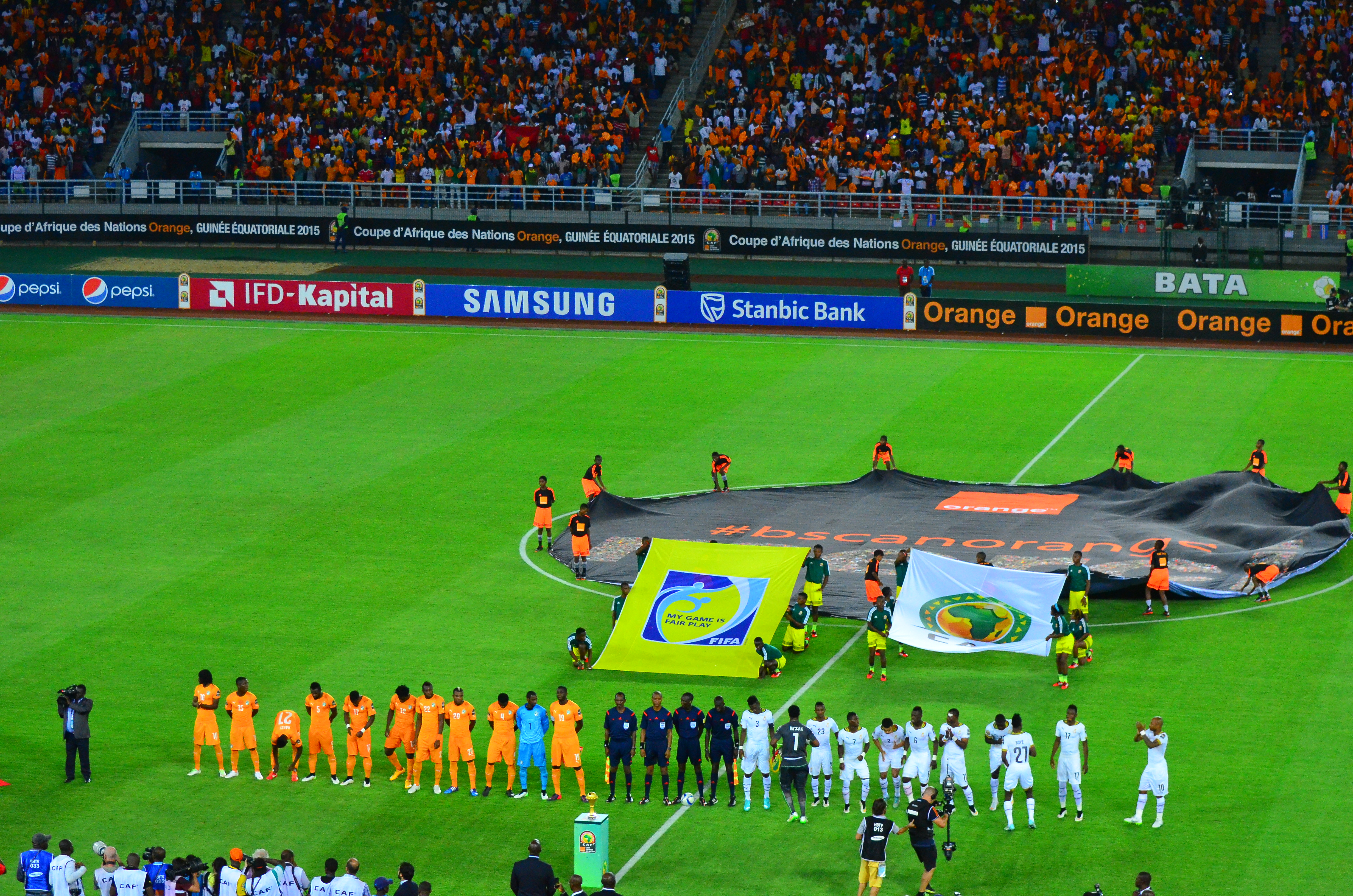 This is a picture of a soccer game (name of it is on file name).